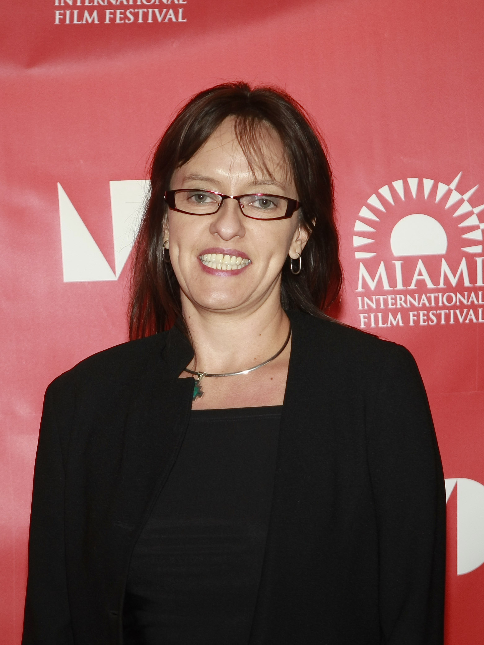 Director Tania Hermida at the 2012 Miami International Film Festival presentation of "In the Name of the Girl" at the MDC Tower Theater